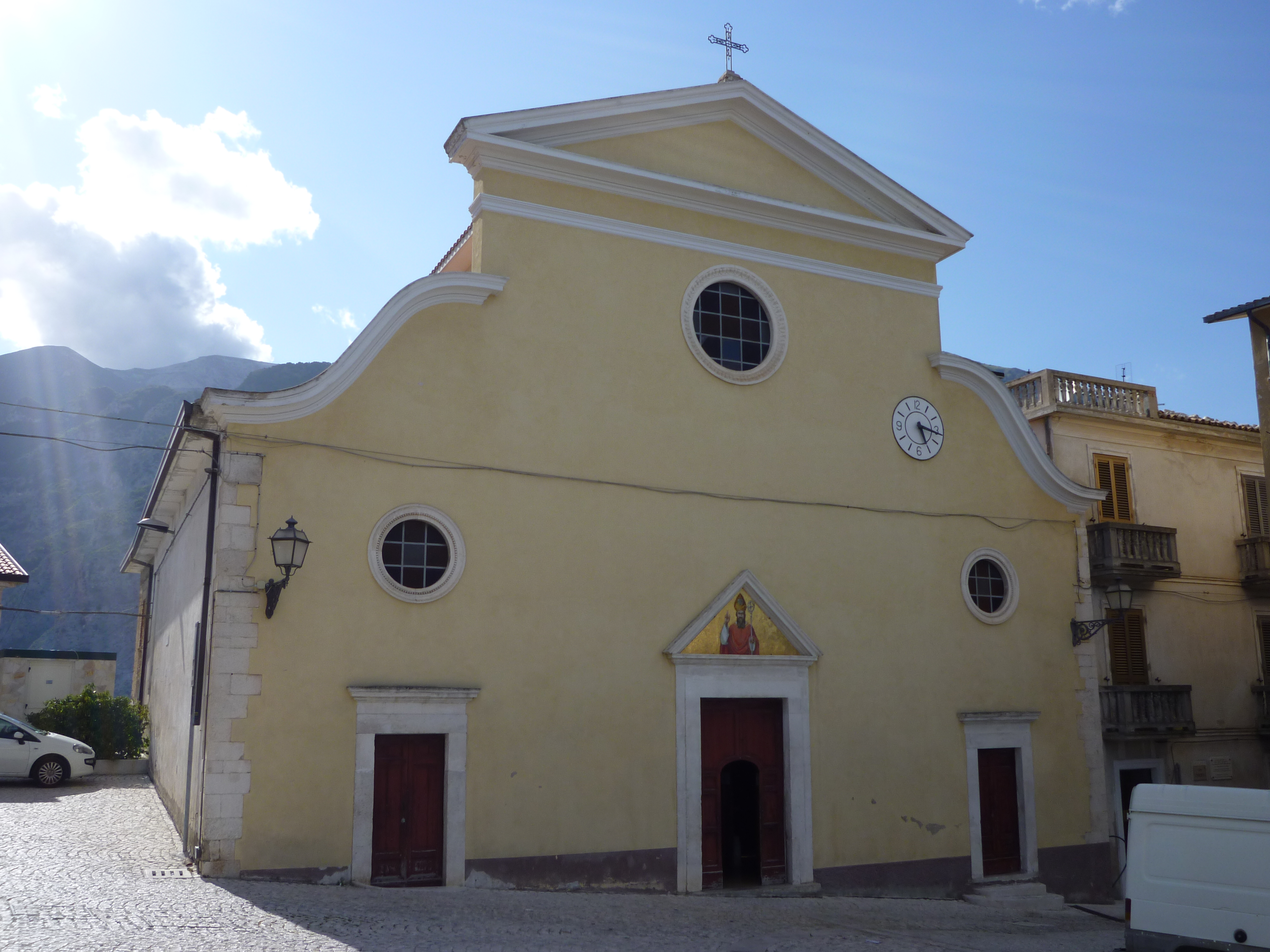 Church of Santissimo Salvatore, Civitella Messer Raimondo, province of Chieti, Abruzzo, Italy.